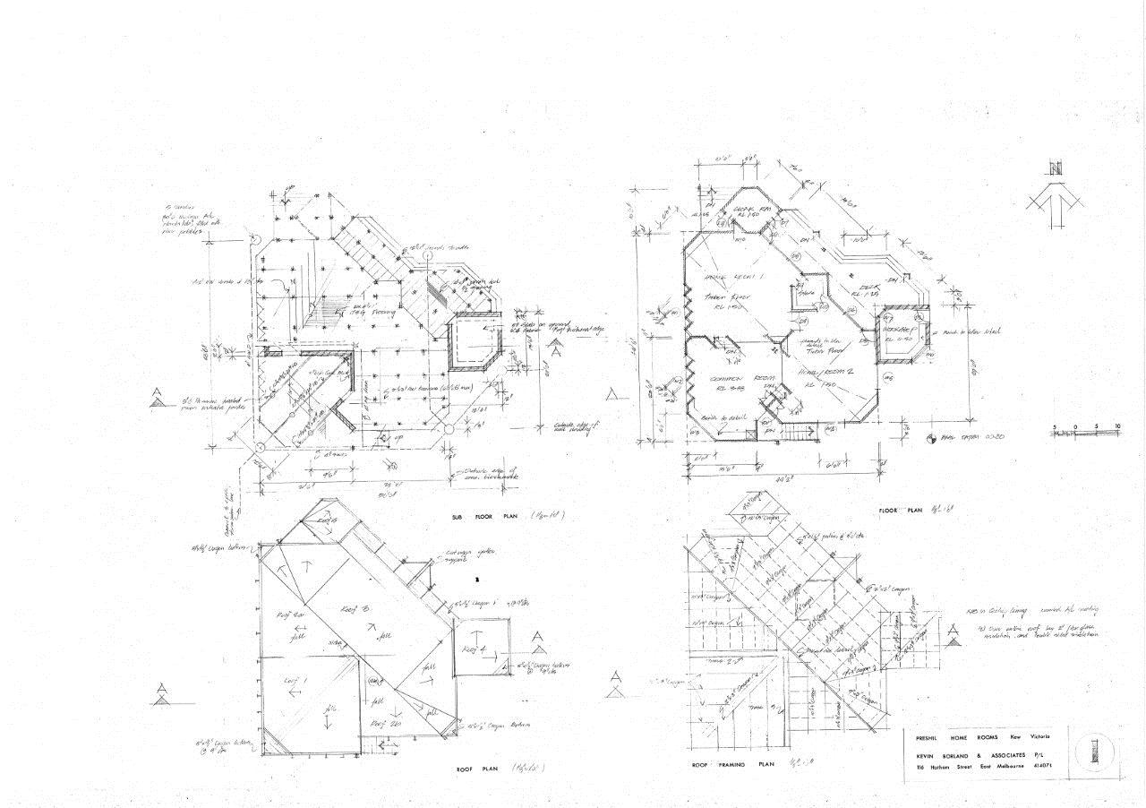 Preshil Home Rooms Plan